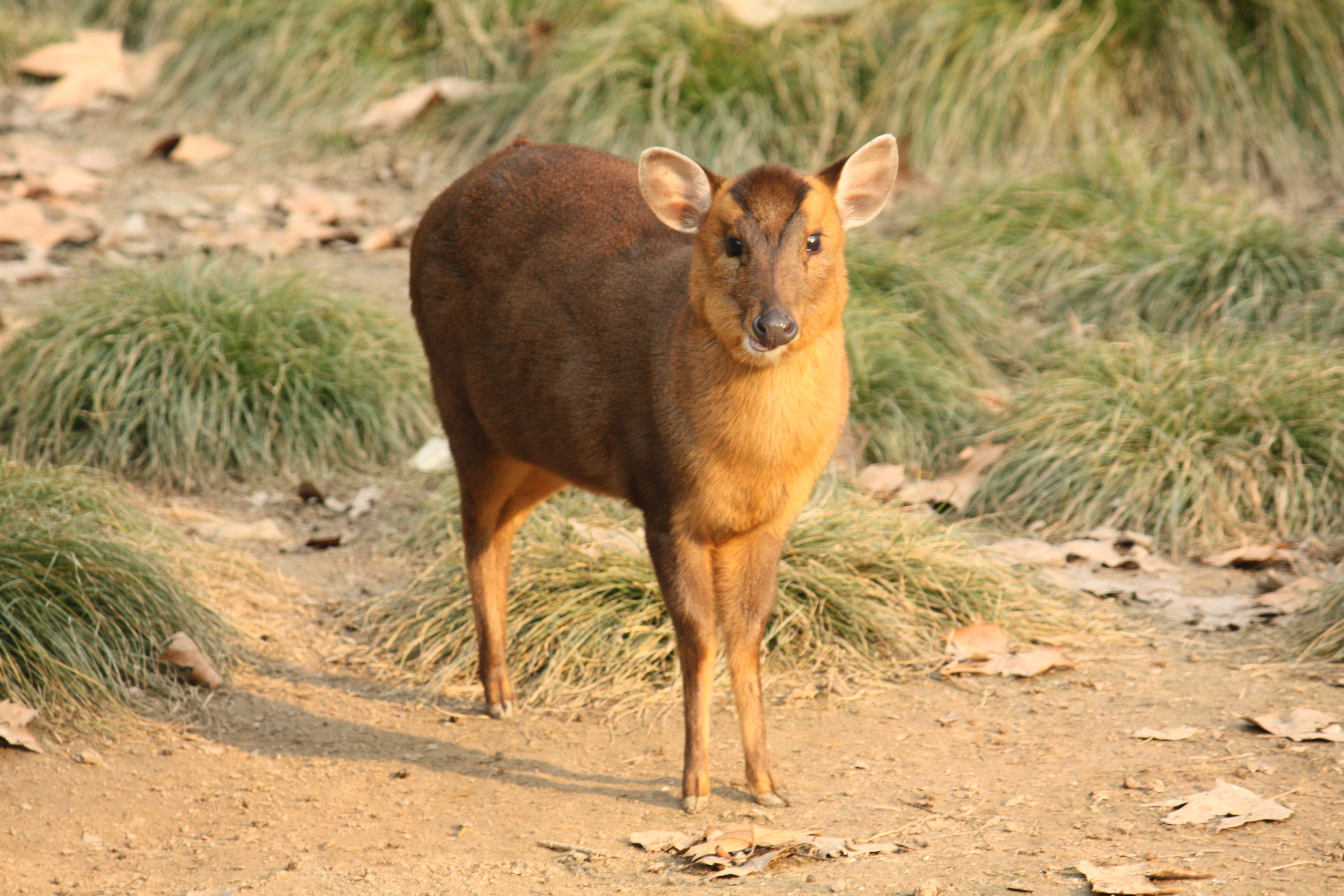 Black Muntjac (Muntiacus crinifrons) in Shanghai Zoo